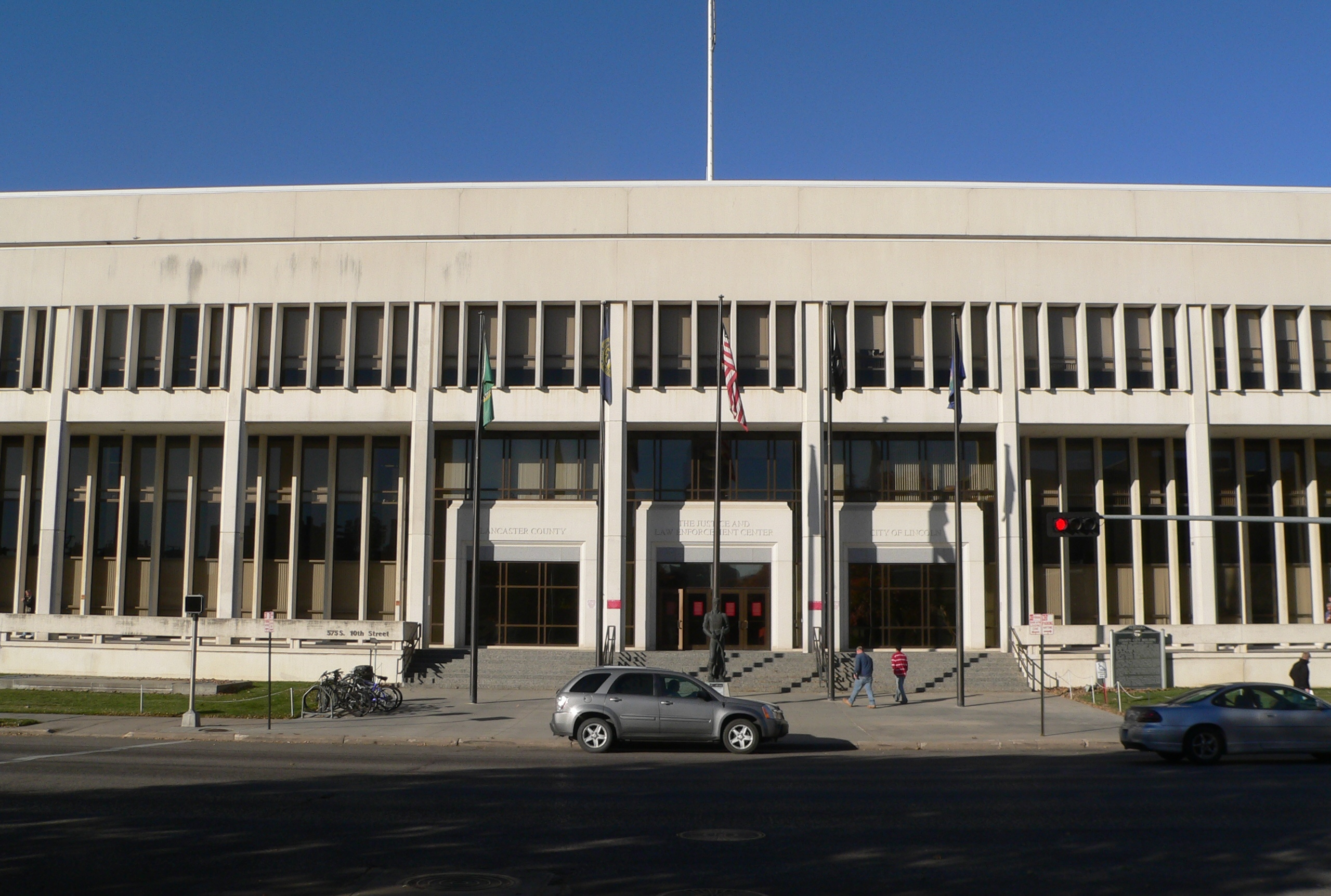 East entrance of Lancaster County Courthouse in Lincoln, Nebraska.